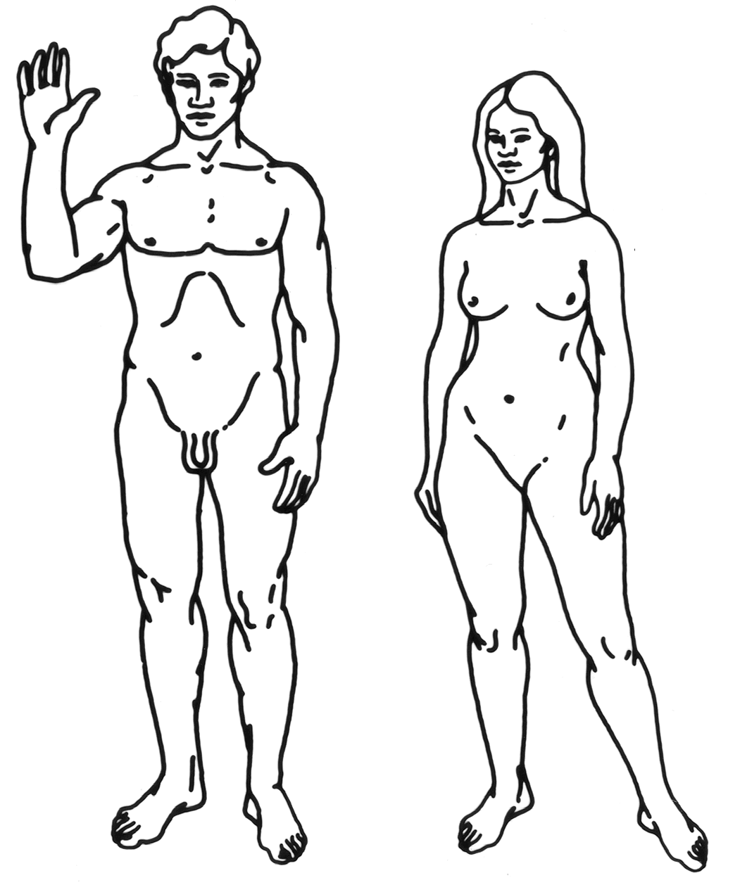 Detail from Pioneer 11 plaque, showing a man and a woman. Note that this version is not redundant to the SVG version, because the SVG is not identical, and the bitmap version is the original.